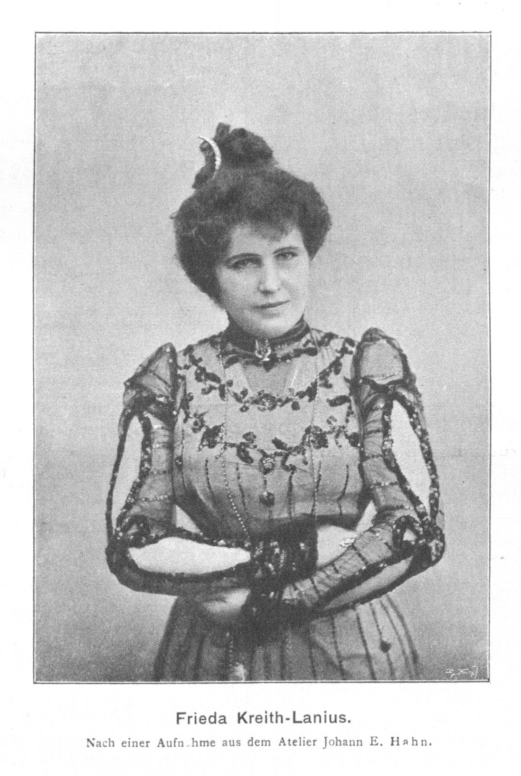 Photograph of Frieda Kreith-Lanius (1867-1929), German actress.